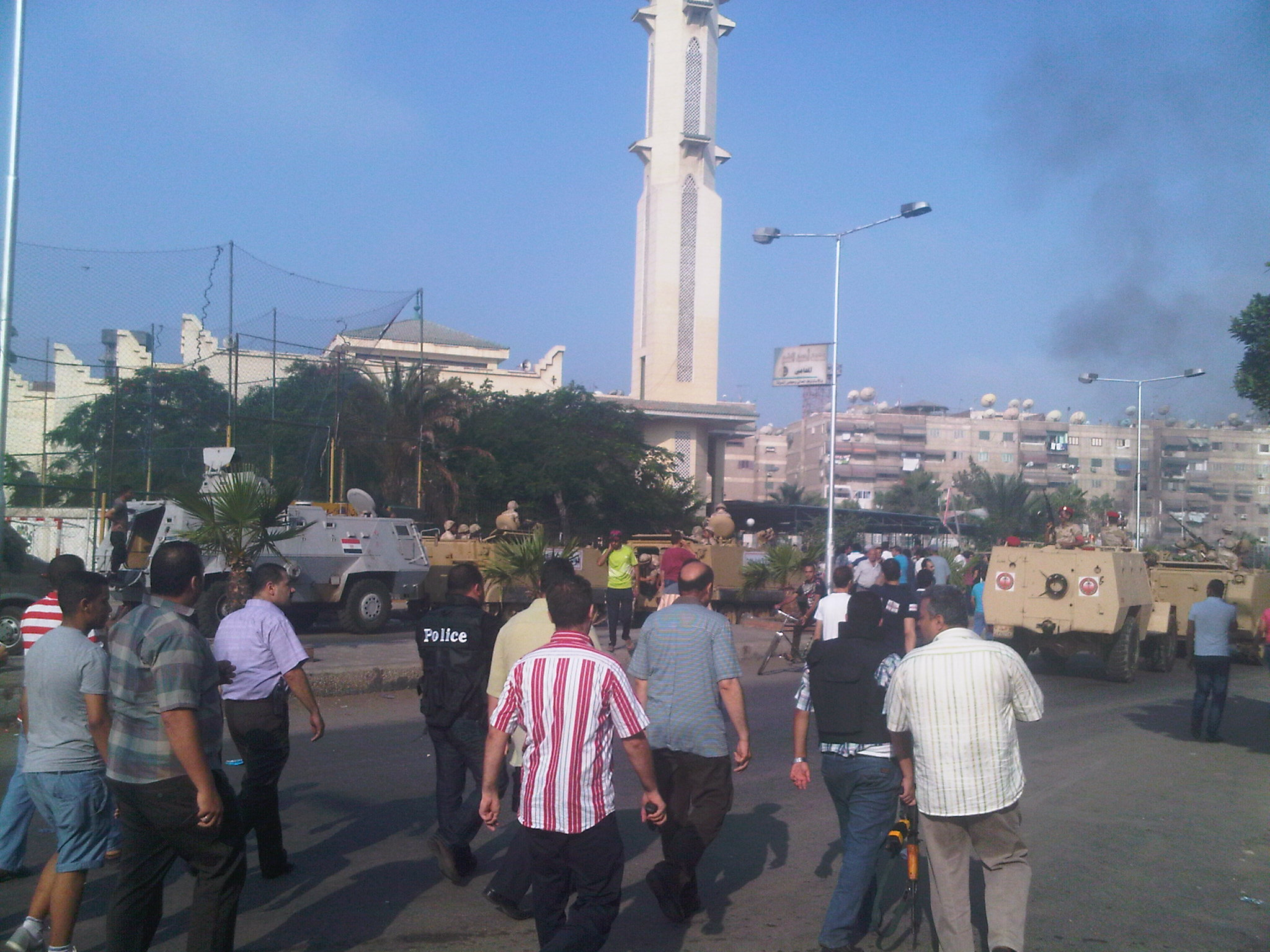 After burning the Muslim brotherhood stage in front of the mosque ad the army armors coming